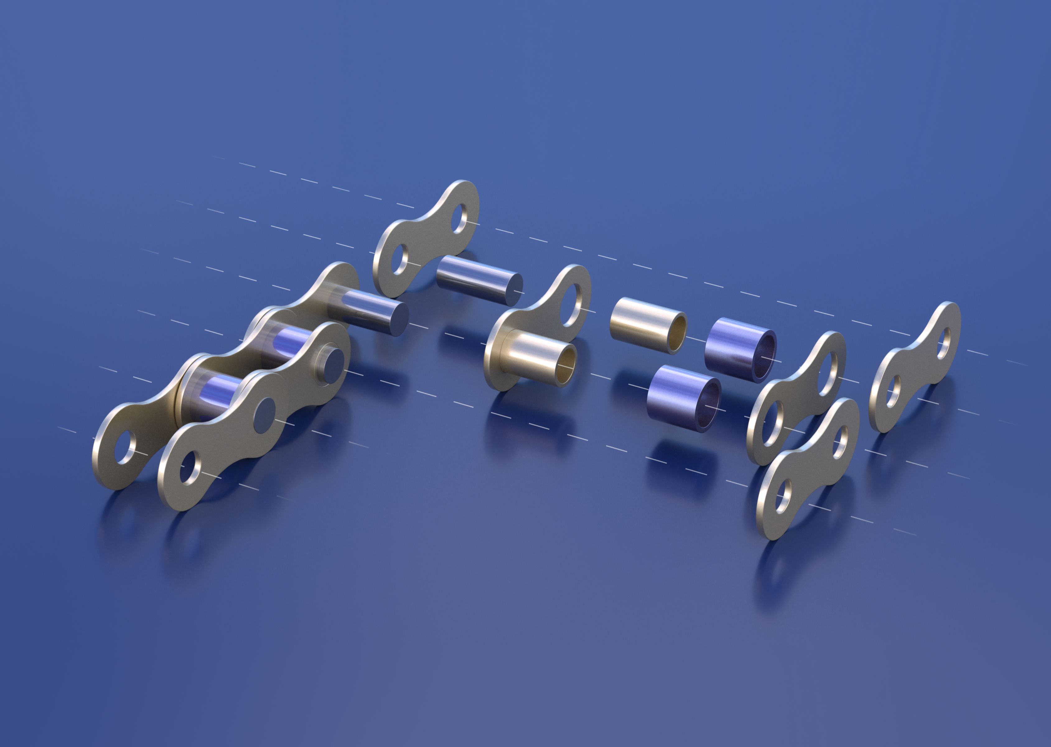 Layout of a roller chain Outer plate Inner plate Pin Bushing Roller